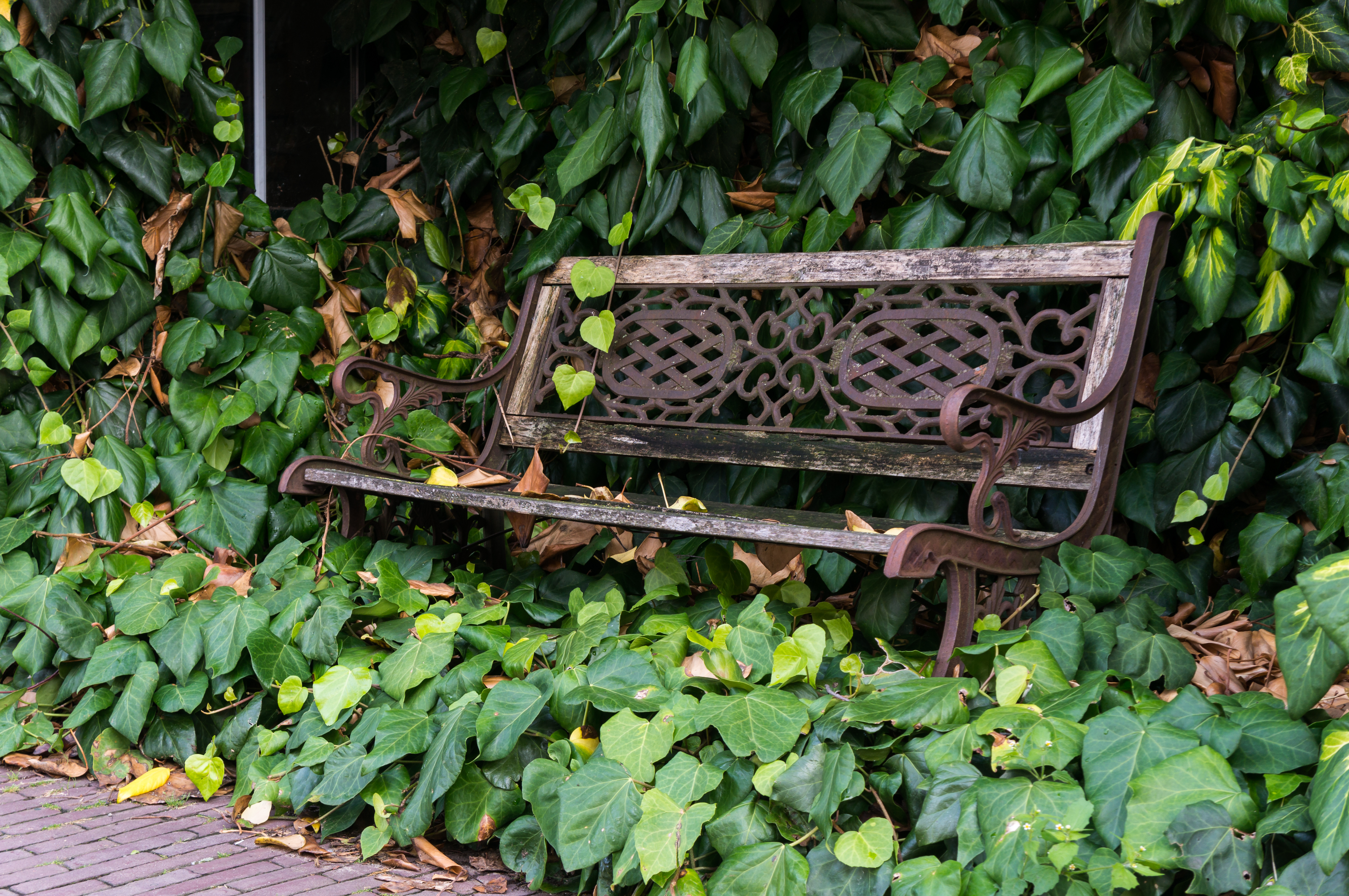 Bench in the Gasthuisstraat in Bredevoort, Gelderland, Netherlands